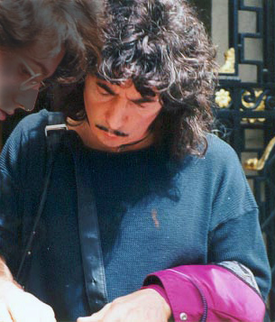 Ritchie Blackmore giving autographs (cropped), Barcelona, 10 June 1997